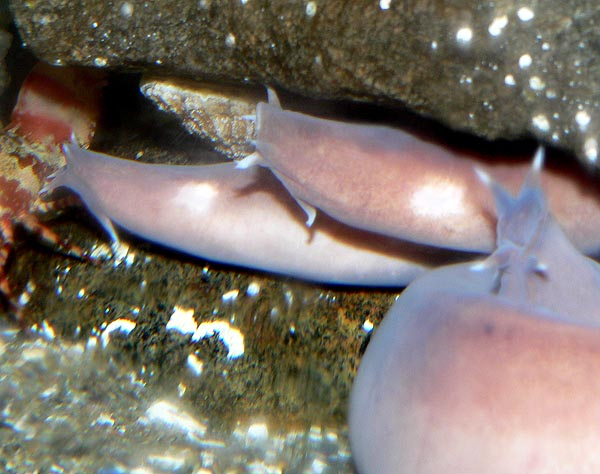 Photo of Eptatretus stoutii (Pacific hagfish) at the Vancouver Aquarium